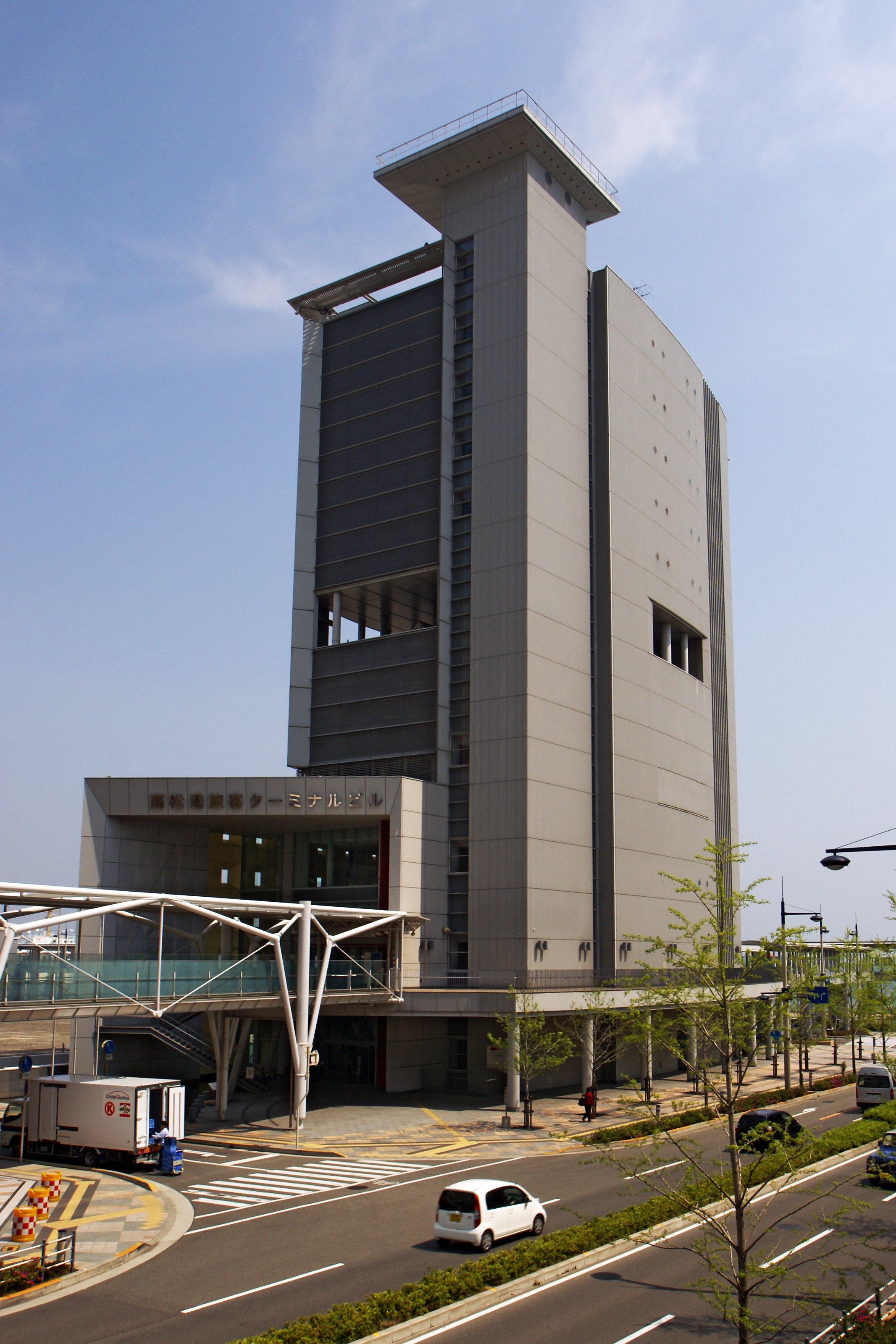 Takamatsu Port Passenger Terminal Building of Sunport-Takamatsu in Takamatsu, Kagawa prefecture, Japan